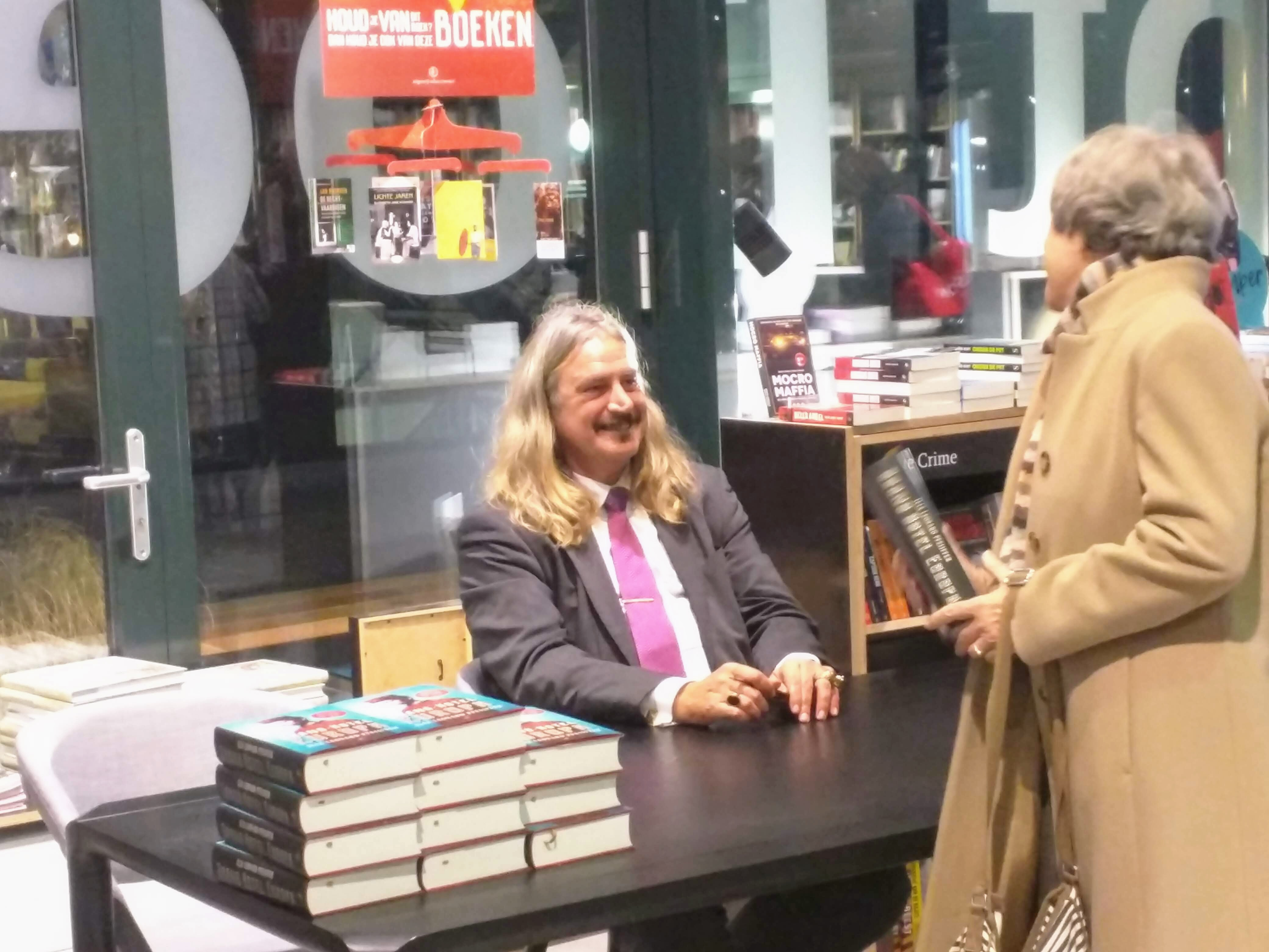 Ilja Leonard Pfeijffer at the signing of Grand Hotel Europa at Van Piere bookstore, Eindhoven